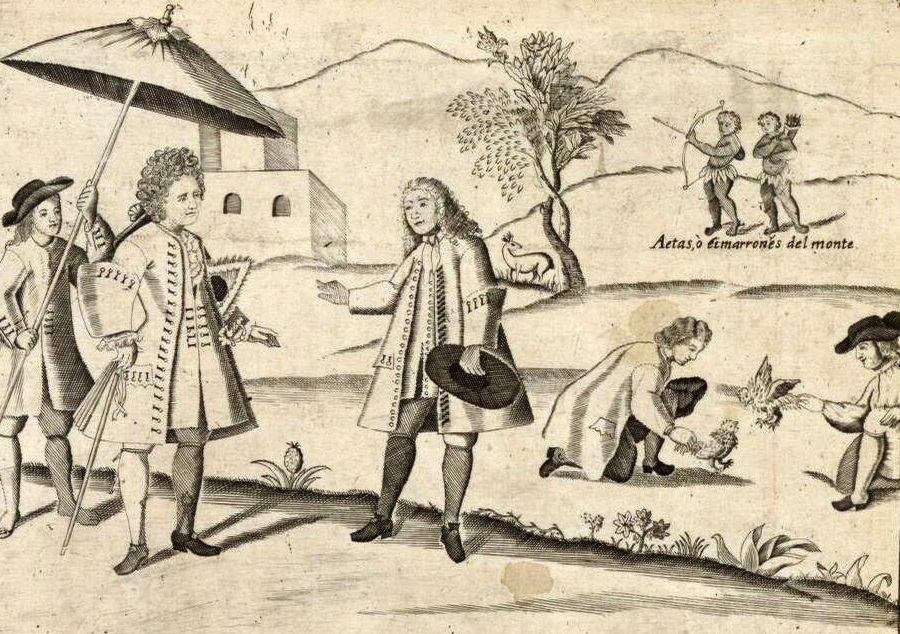 Detail of illustration from the Carta Hydrographica y Chorographica de las Yslas Filipinas (1734). From left to right: a Spaniard and his servant, a Criollo and two Filipino natives engaging in a cockfight. Two Aetas are in the background, described as "wild men of the mountains".